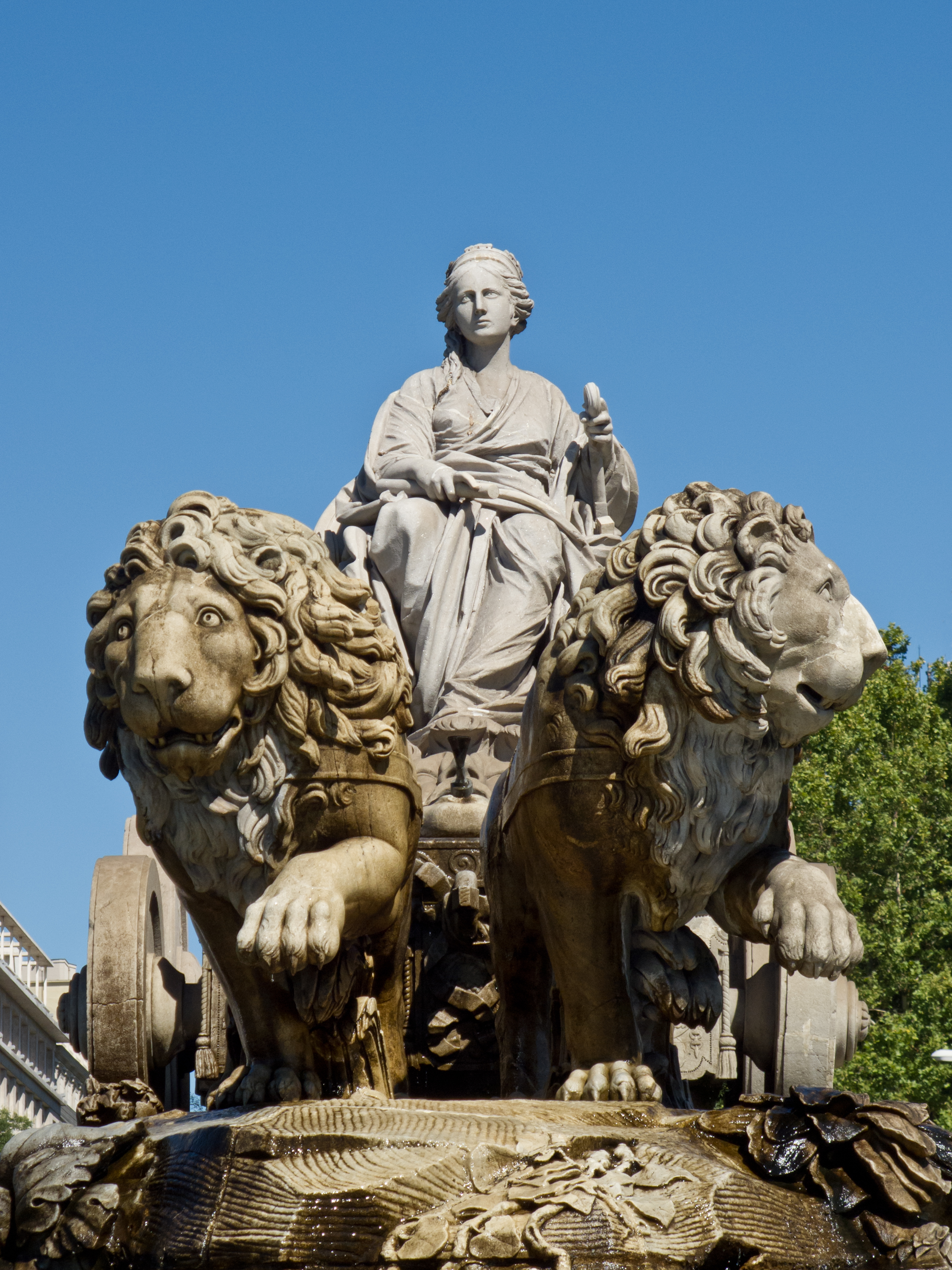 Fountain of Cybele, Madrid, Spain.